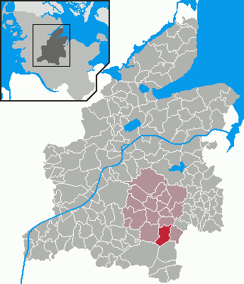 Locator maps of municipalities in Schleswig-Holstein - District Rendsburg-Eckernförde